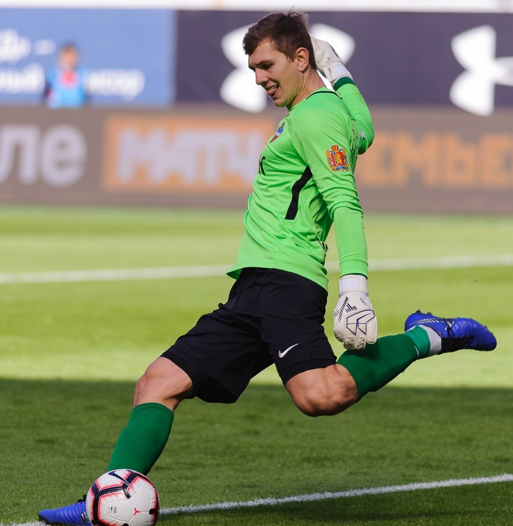 Yuri Nesterenko with FC Yenisey Krasnoyarsk in a game against FC Lokomotiv Moscow.